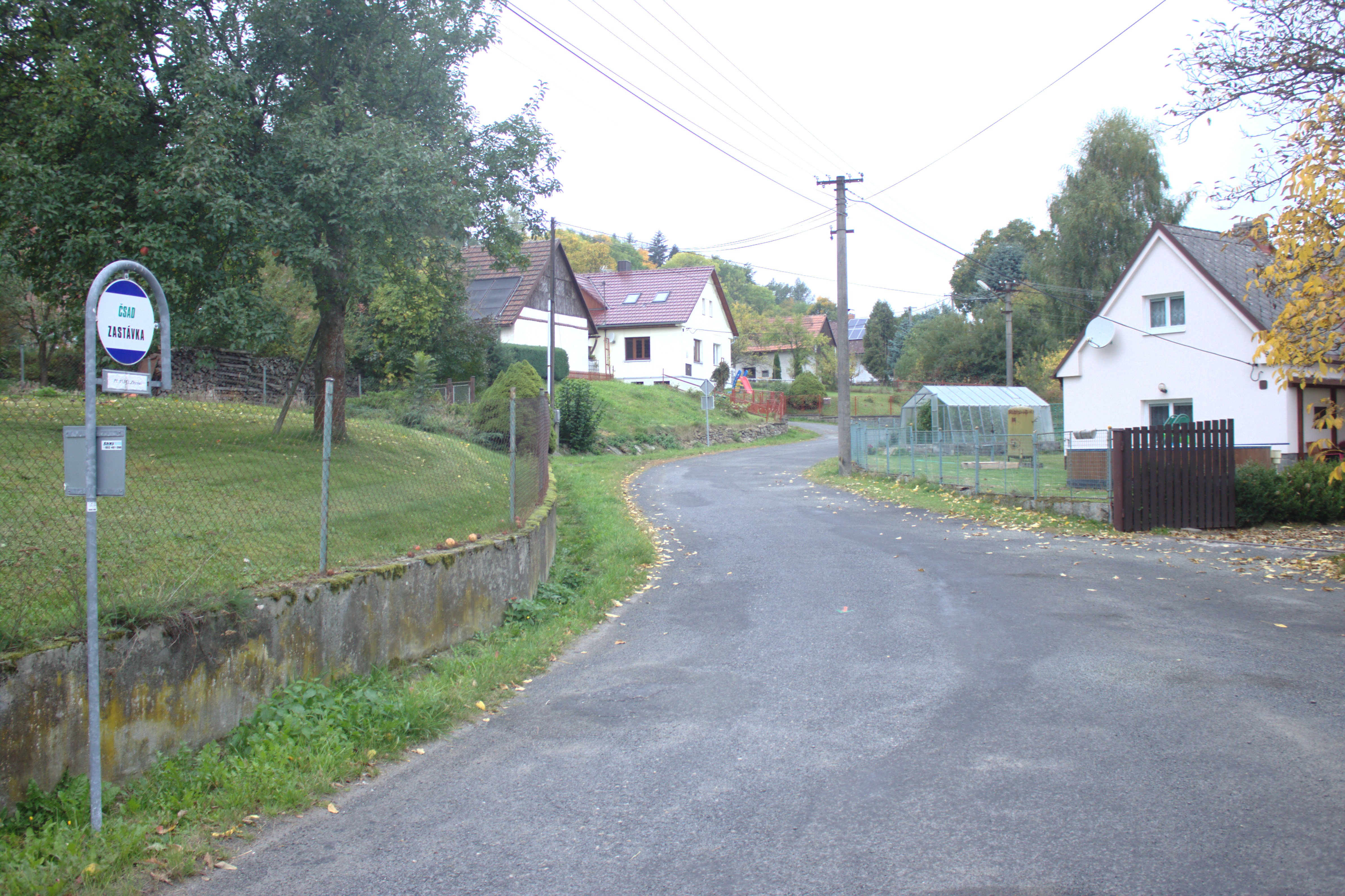 A road in the village of Zbyslav, Plzeň Region, CZ